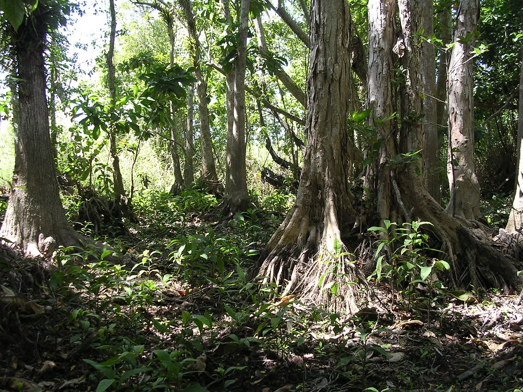 Swamp forest fringing Lake Onu Laran near Foho Lulik, Covalima, Timor-Leste